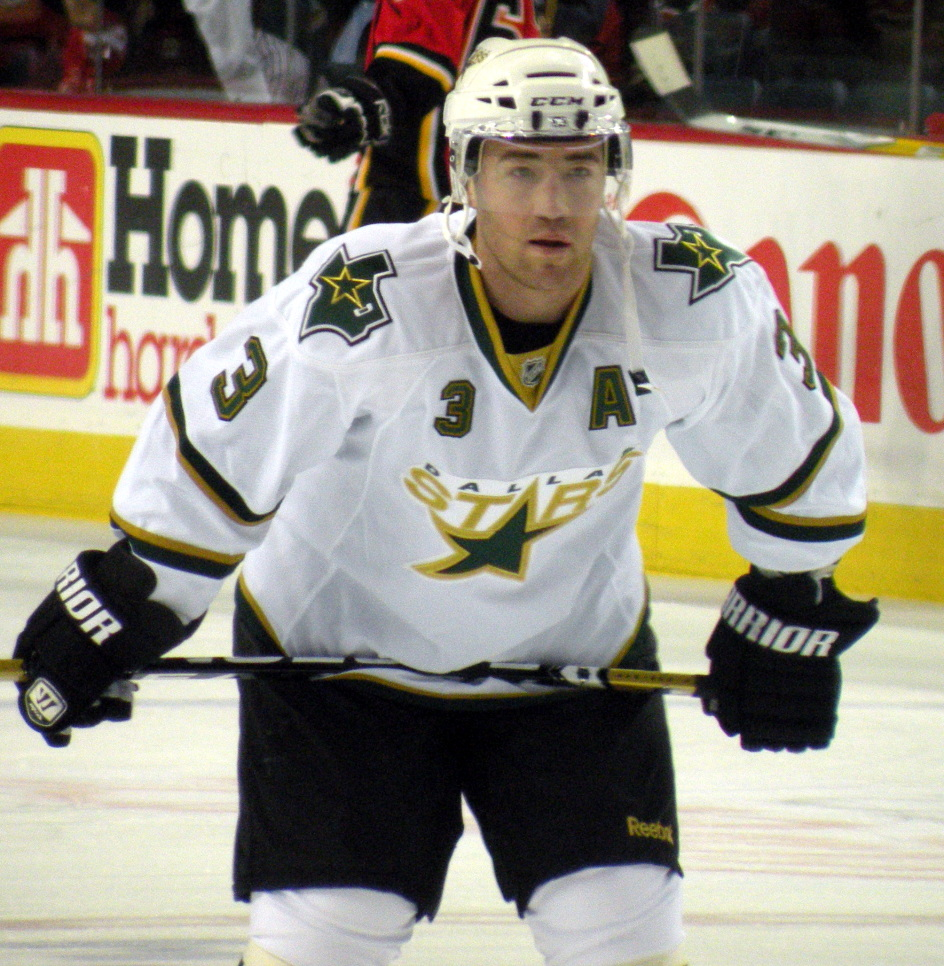 Dallas Stars defenceman Stephane Robidas during warm-up prior to a National Hockey League game vs. the Calgary Flames in Calgary.